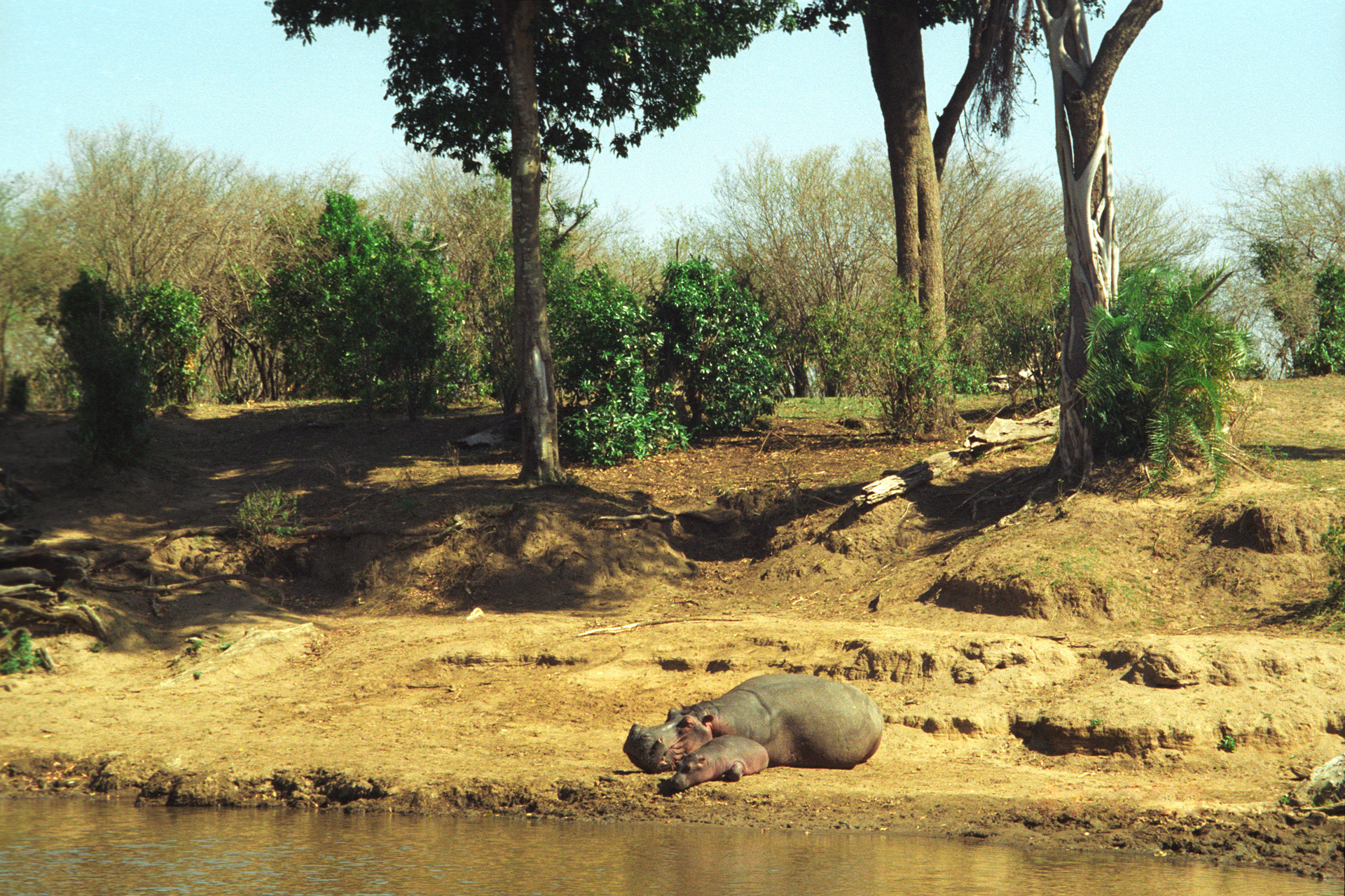 Hippo with puppy, Mara River, Kenya